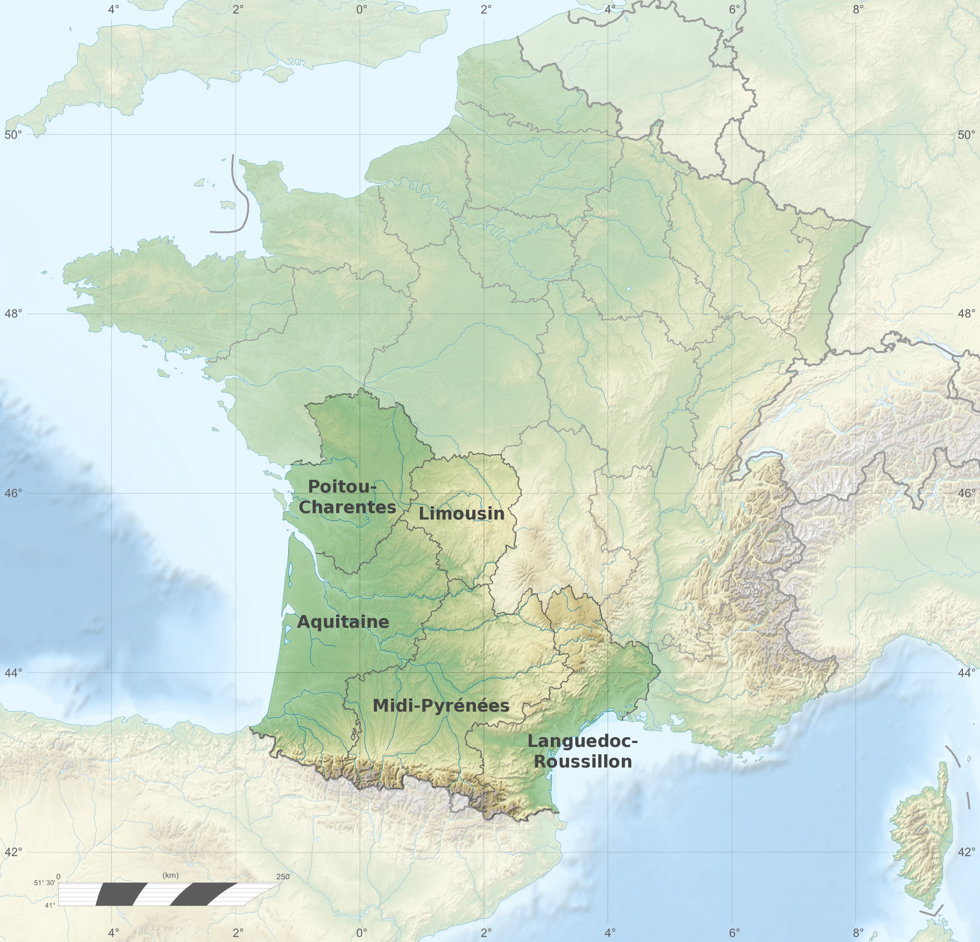 Physical map of France with South-West highlighted and regions names